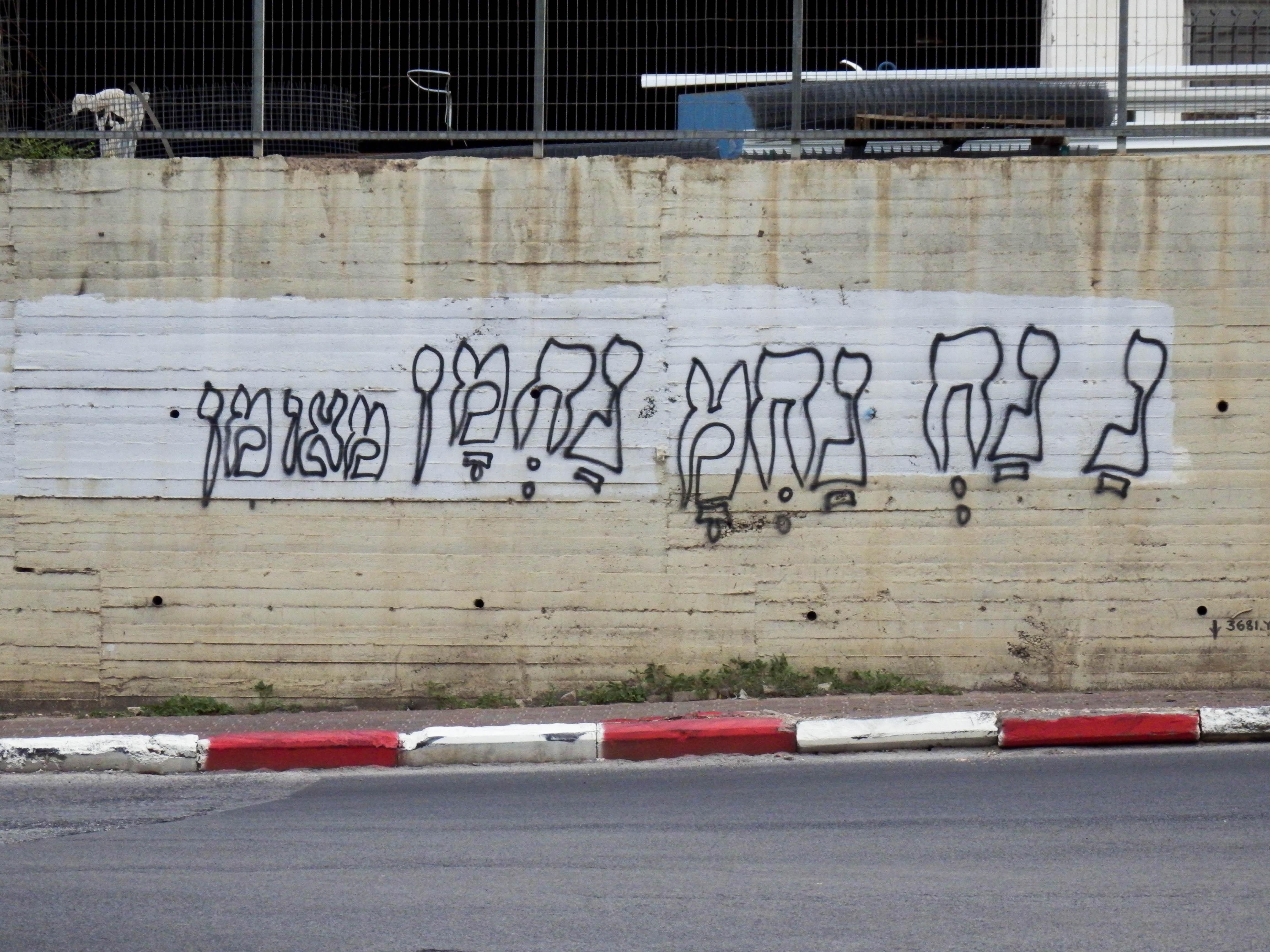 The Na-Nach phrase sprayed on a wall in Tiberias, Israel.